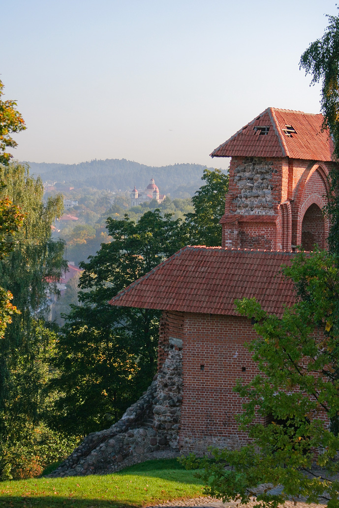 Panorama of Antakalnis from Vilnius Castle Hill